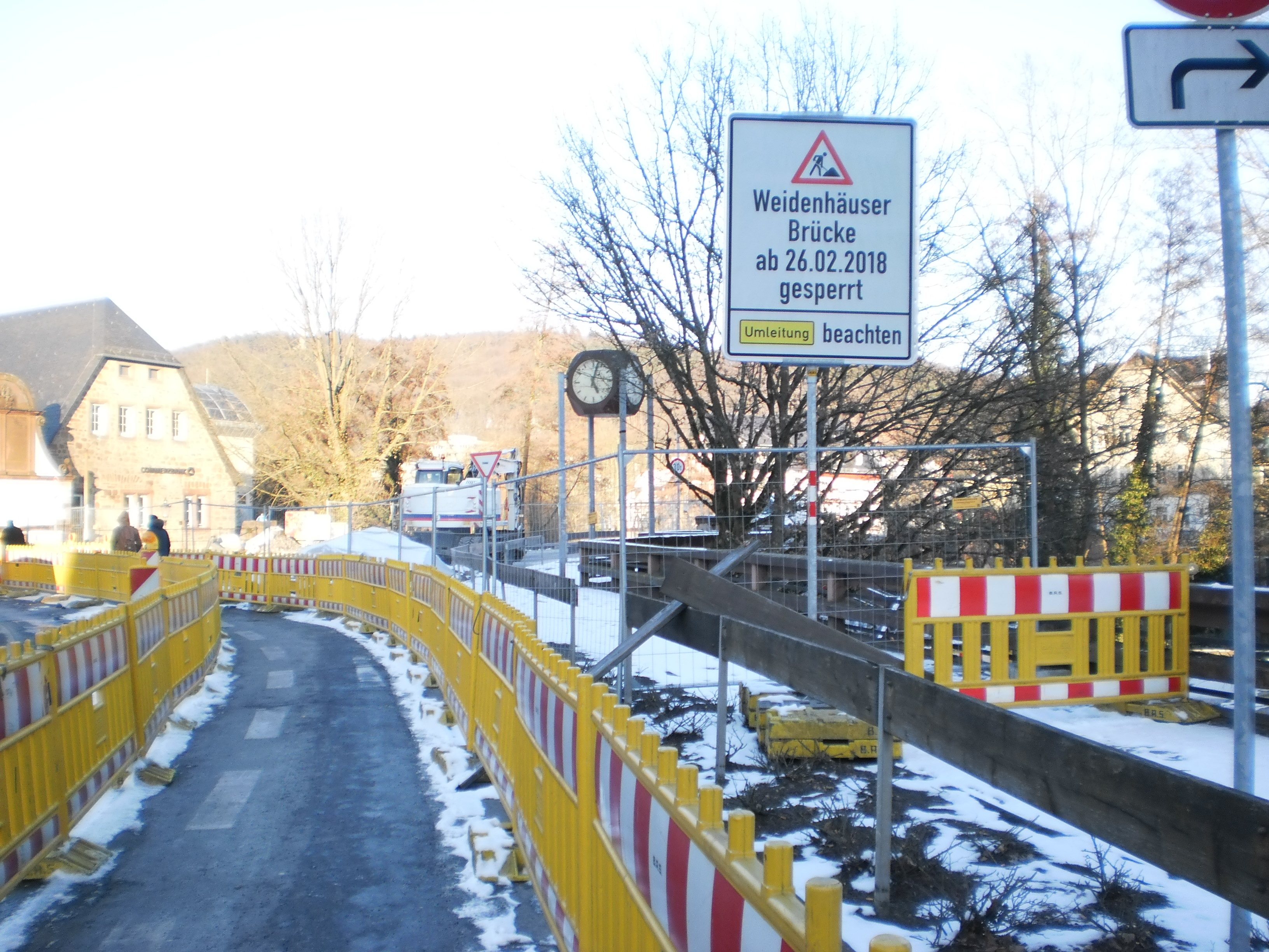 Construction works in Marburg with fence at Lahn bridge Weidenhäuser Brücke, closed since 2018-02-26, a view from square Rudolphsplatz/street Universitätsstrasse with sidewalk on street.